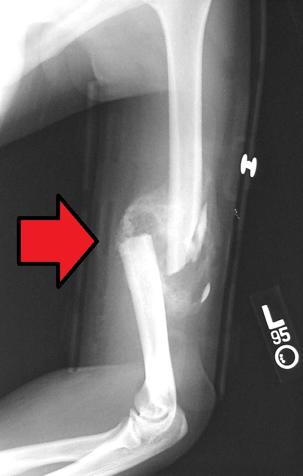 Communitive midshaft humeral fracture with callus formation.